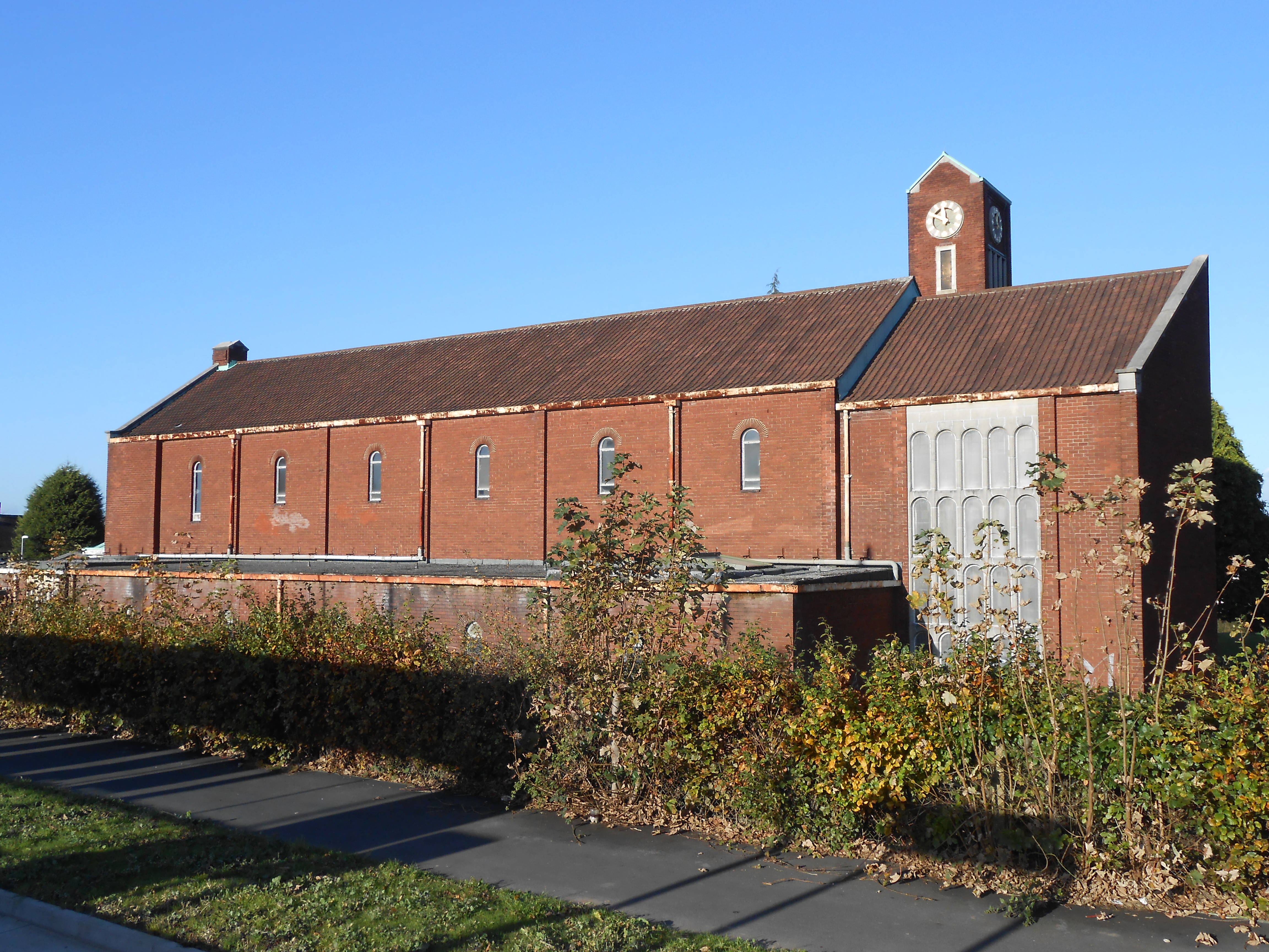 St Martin's Church, Wythenshawe, Manchester, England.